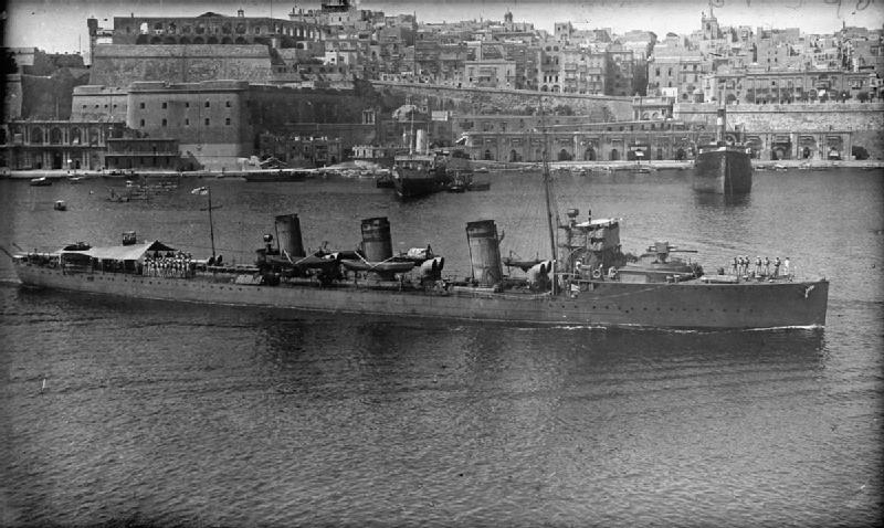 Photograph of British Beagle class destroyer HMS Scorpion leaving Malta Harbour.